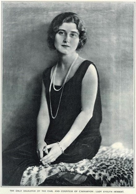 Portrait photograph of Lady Evelyn Herbert, later Lady Evelyn Beauchamp, daughter of 5th Earl of Carnarvon.